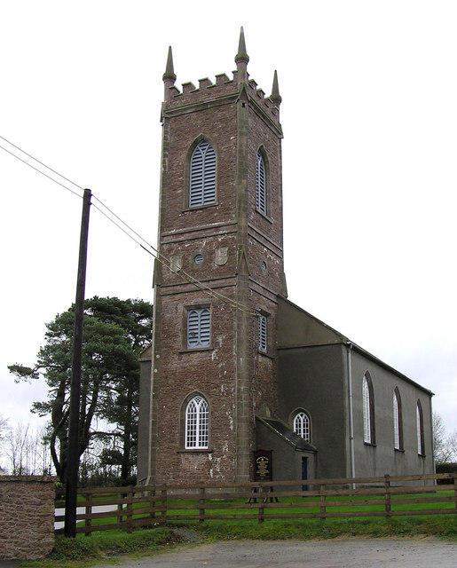 St John's Church of Ireland, Lisnadill It is located on the B31, about 3 miles to the south of Armagh city.